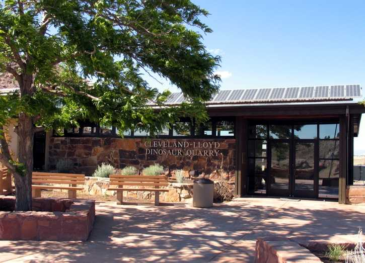 Image by Richard M. Warnick, Utah Wilderness Atlas